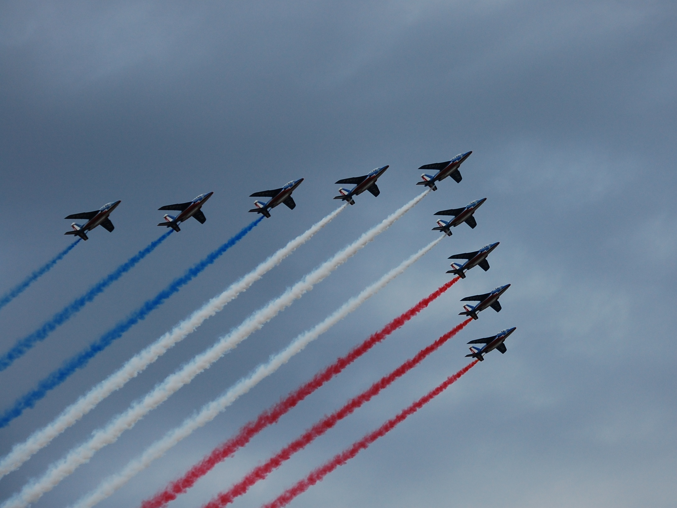 Tricolor smoke trails begin the flyover.